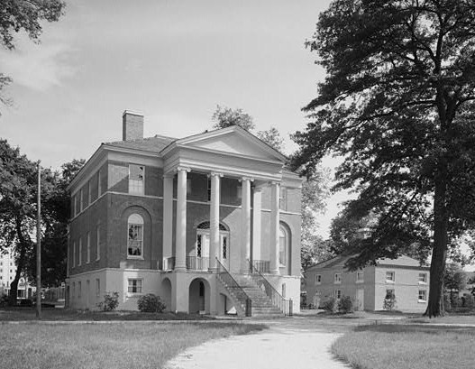 Robert Mills House - Ainsley Hall (Columbia, South Carolina) (cropped)